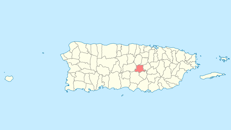 Municipal locator of Puerto Rico